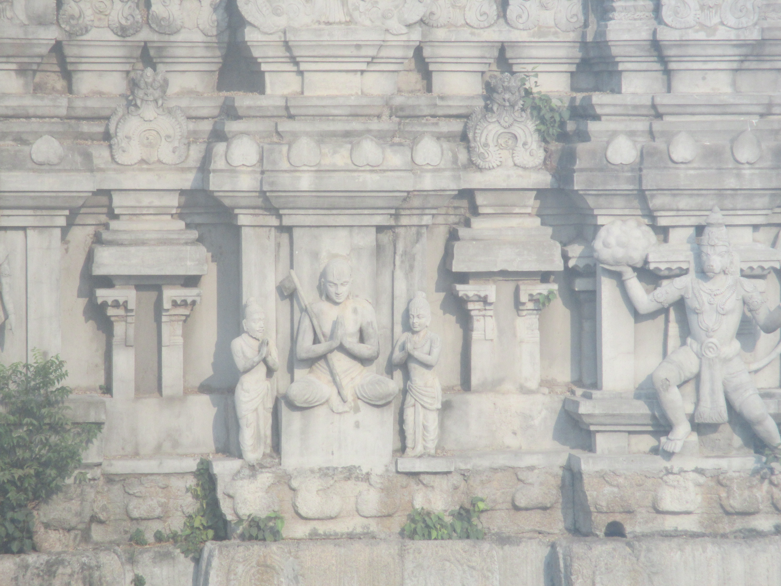 Ulagalantha Perumal Temple, Tirukoyilur